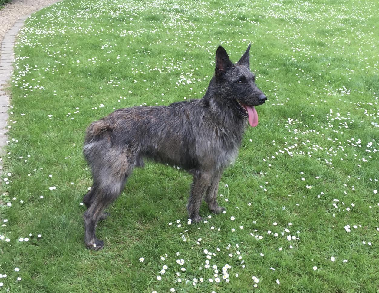 Dog Bouvier des Ardennes